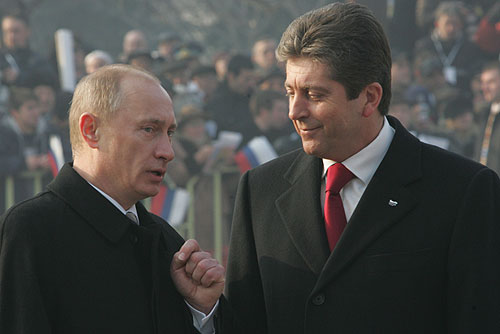 ST ALEXANDER NEVSKY SQUARE, SOFIA. With Bulgarian President Georgi Parvanov.